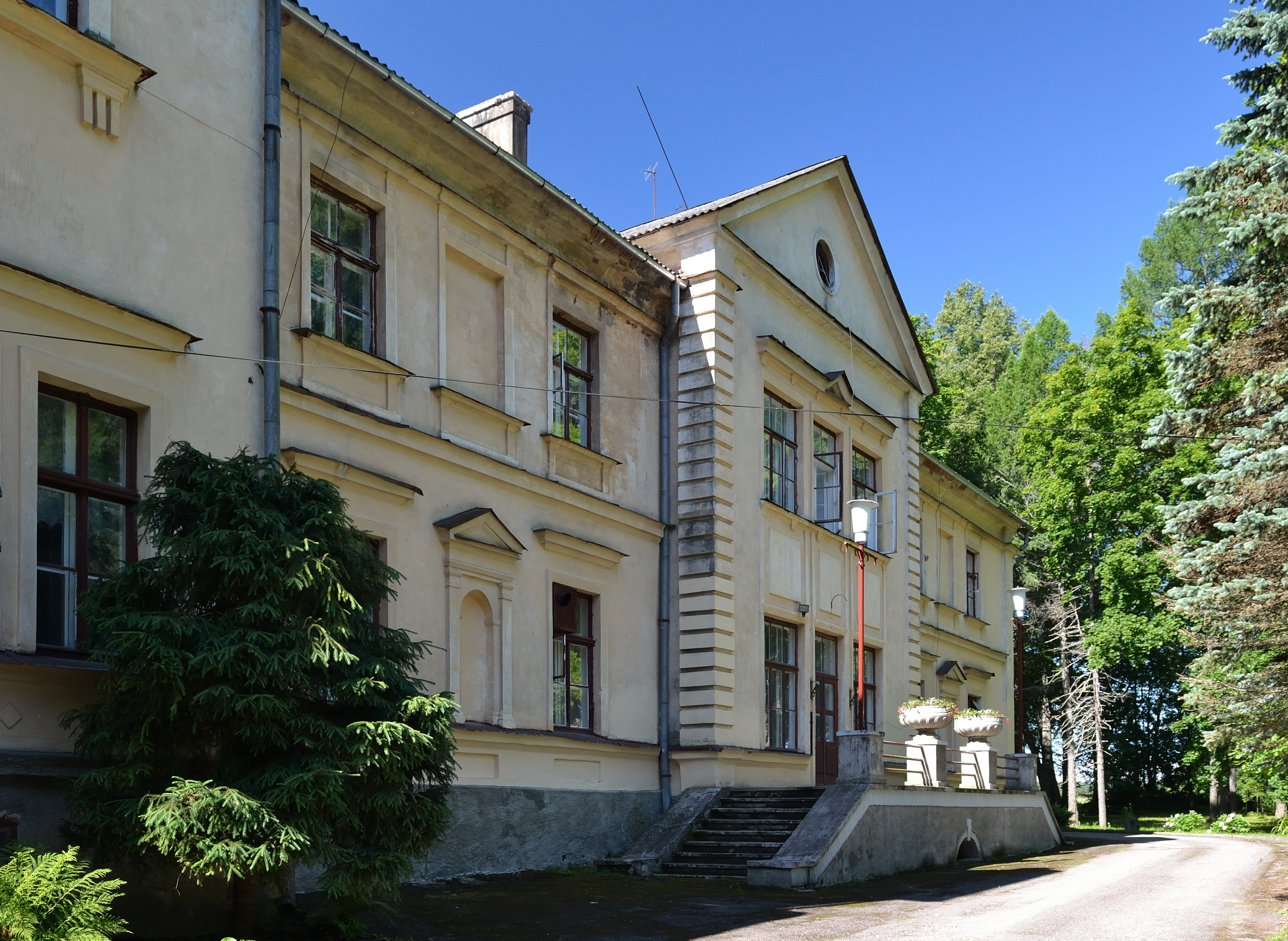 Uderna manor main building